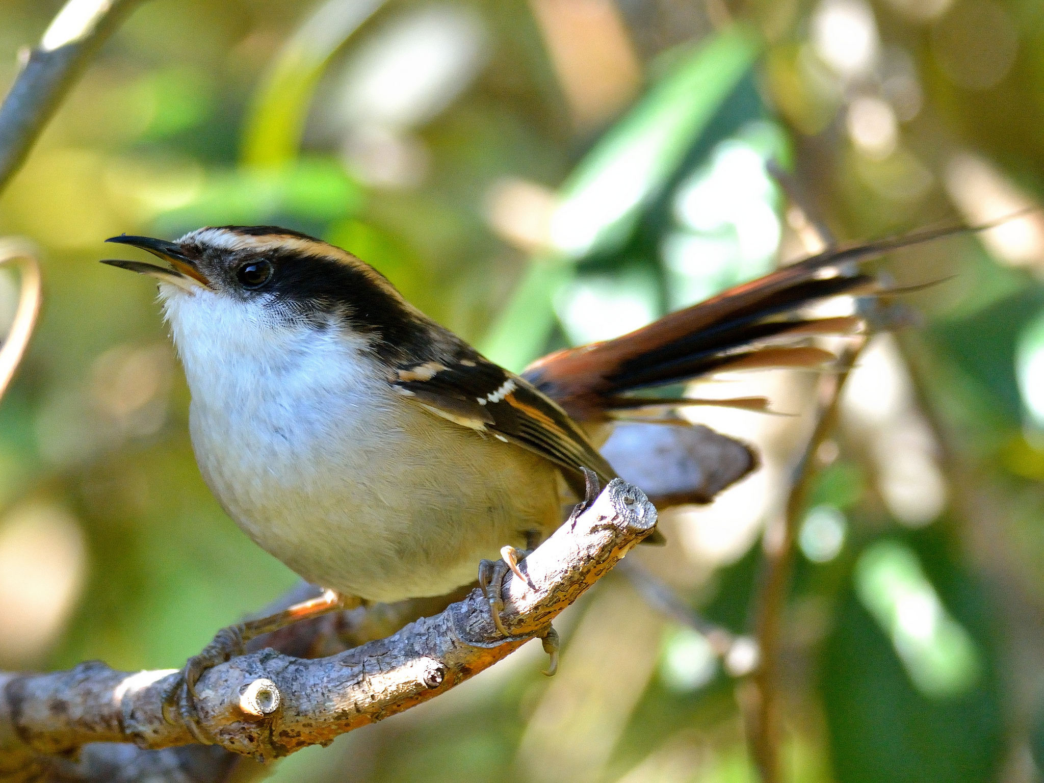 Rayadito, Tomé, Chile